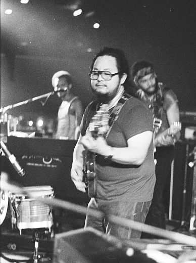 Mikey Chung touring with Peter Tosh on Mystic Man tour, Top Rank, Cardiff, 1979. Visible in background: Robbie Lynn (keyboards) and Darryl Thompson (lead guitar).